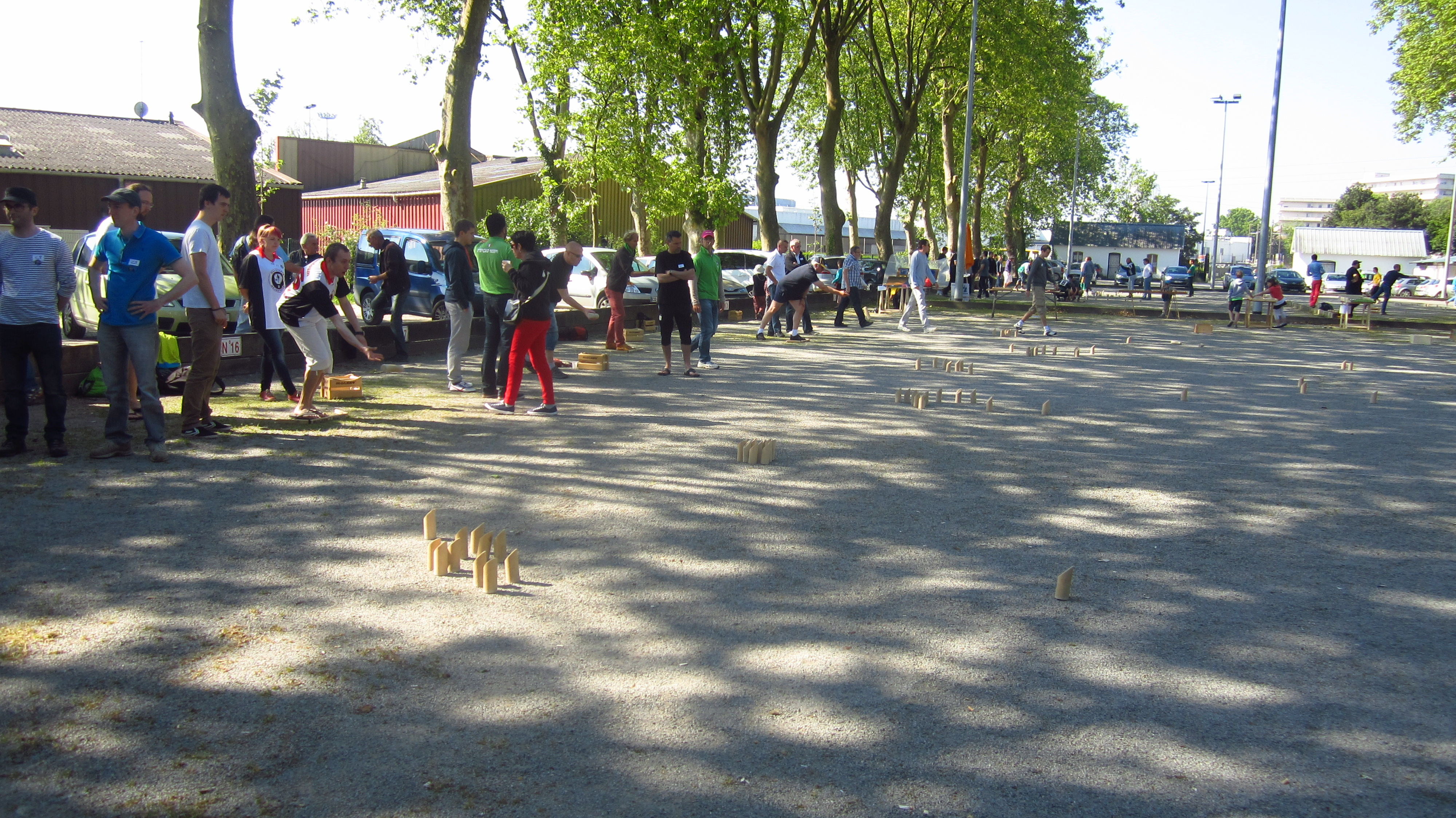 Mölkky competition in Nantes, France